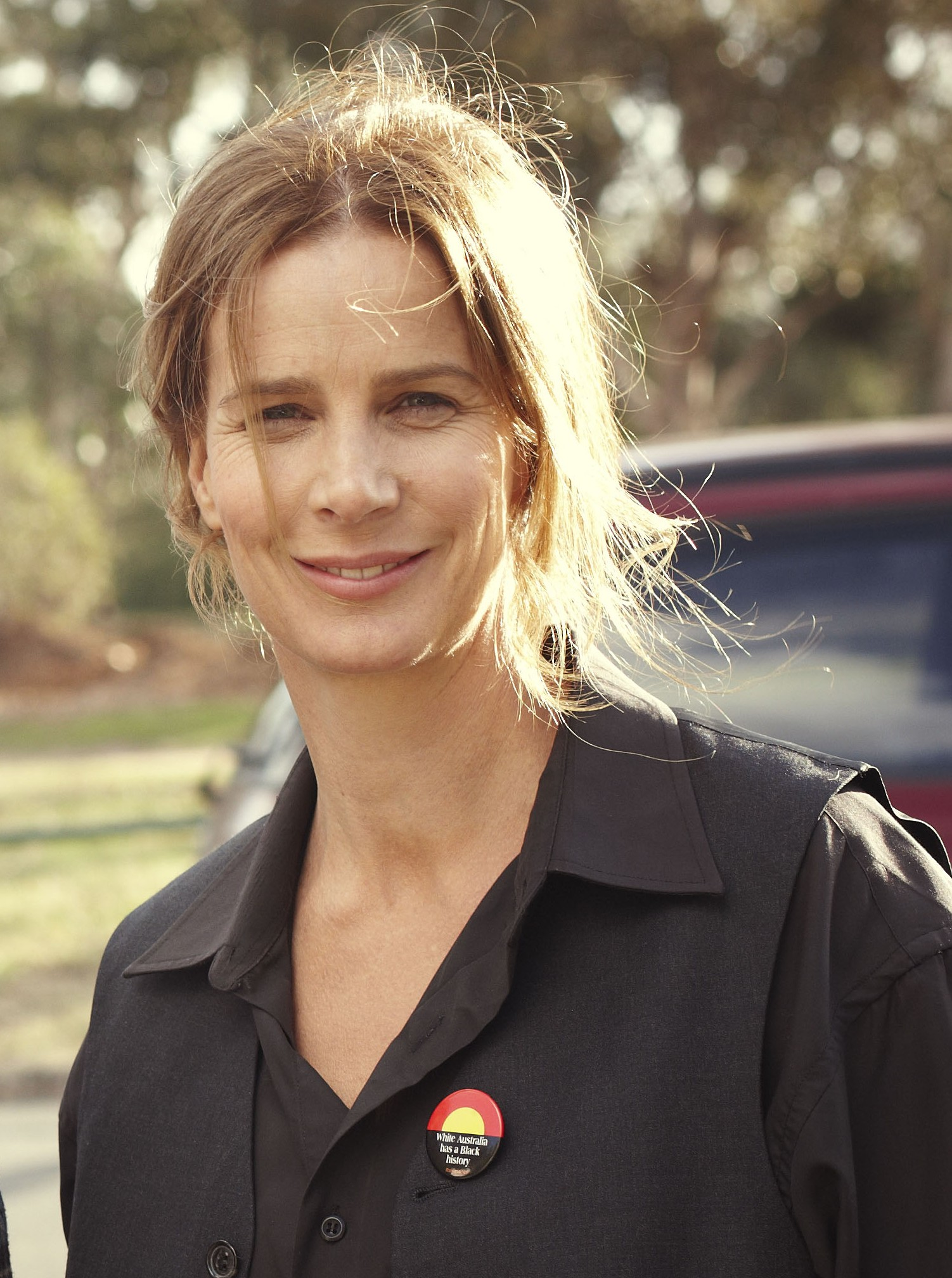 UNDERGROUND_photoJ.Tsiavis_0795 Pics from the set OFFICIALLY released by the production company.